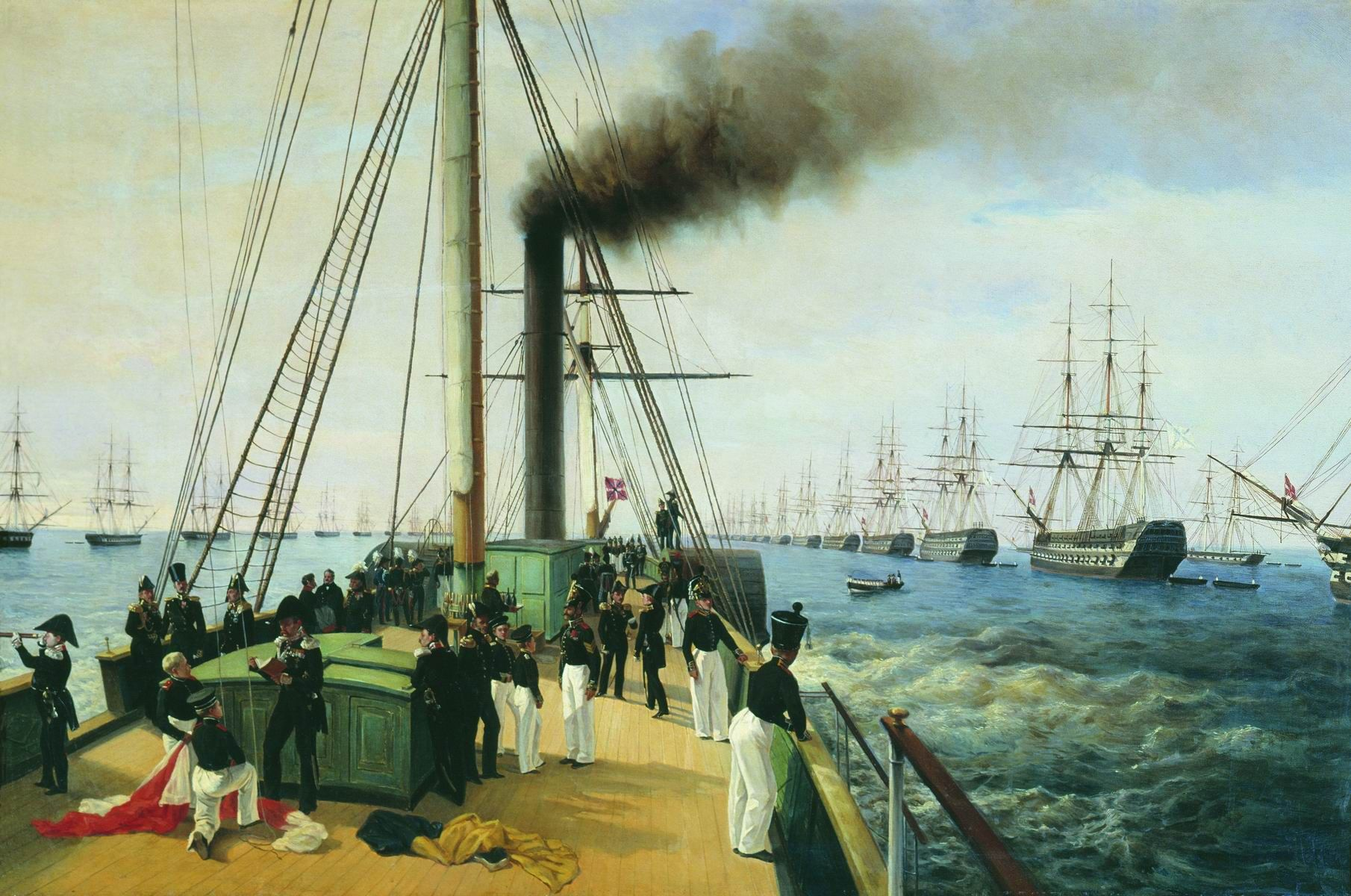 A review of the Baltic Fleet by Nicholas I at sea, from the deck of the ship. Photo-reproduction of the picture of A. Bogolyubov. The painting is kept in the Central Naval Museum, Russia.